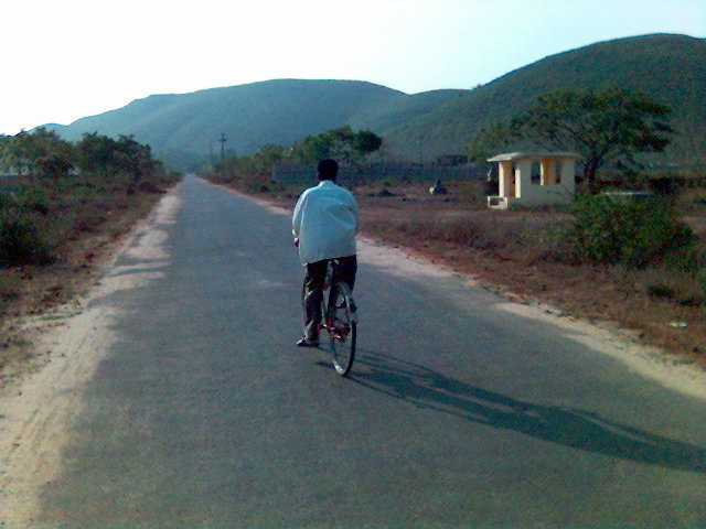 Barunei hill at Khurda.